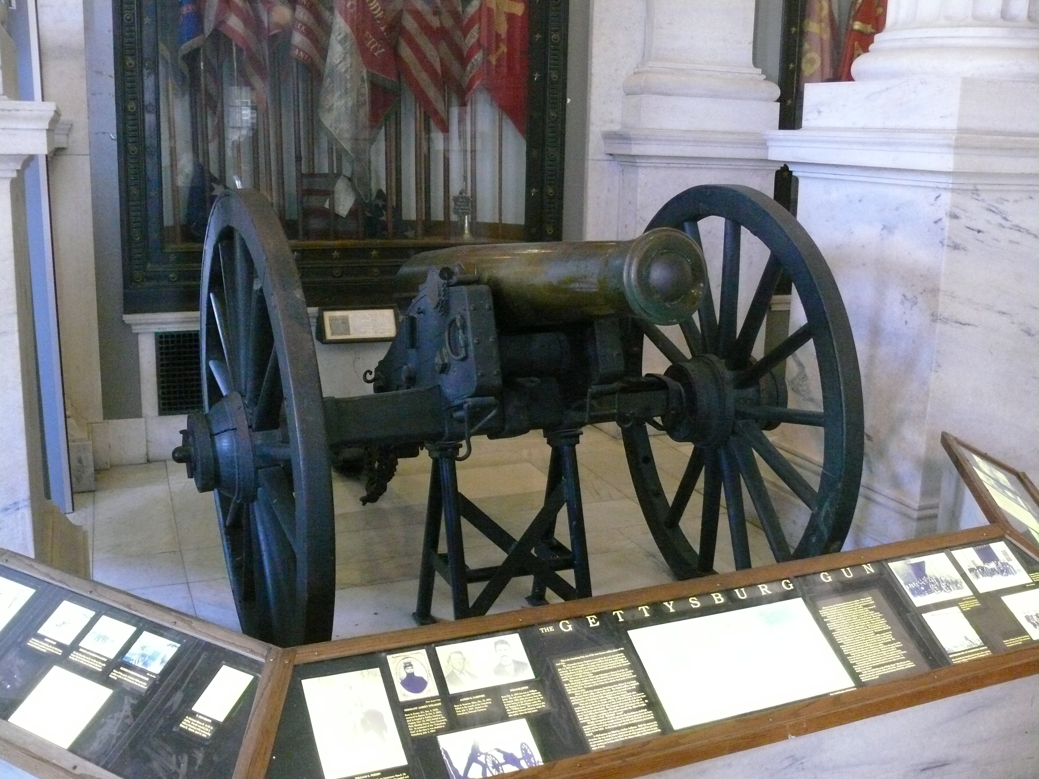 The Gettysburg Gun, last fired during the eponymous 1863 Civil War battle, sits in the foyer of the Rhode Island Statehouse. At Gettysburg, this gun was a part of the 1st Regiment Rhode Island Light Artillery Battery B. On July 2 and 3, 1863, ‘The Gettysburg Gun’ was one of the six guns firing on the Confederate positions before ‘Pickett’s Charge’ began. While attempting to load the cannon, a shell hit the bore of the gun at the muzzle and killed the two cannoneers servicing the piece, William Jones and Alfred G. Gardner. The remaining cannoneers led by Sargeant Albert Straight tried to load the cannon but the bore had been damaged badly. In the face of an onslaught of 15,000 Confederates they attempted to load the 12 pound ball into the damaged bore with an axe, but it became stuck and held fast. As the muzzle cooled down the ball became permanently lodged in the mouth of the gun where it still resides today.